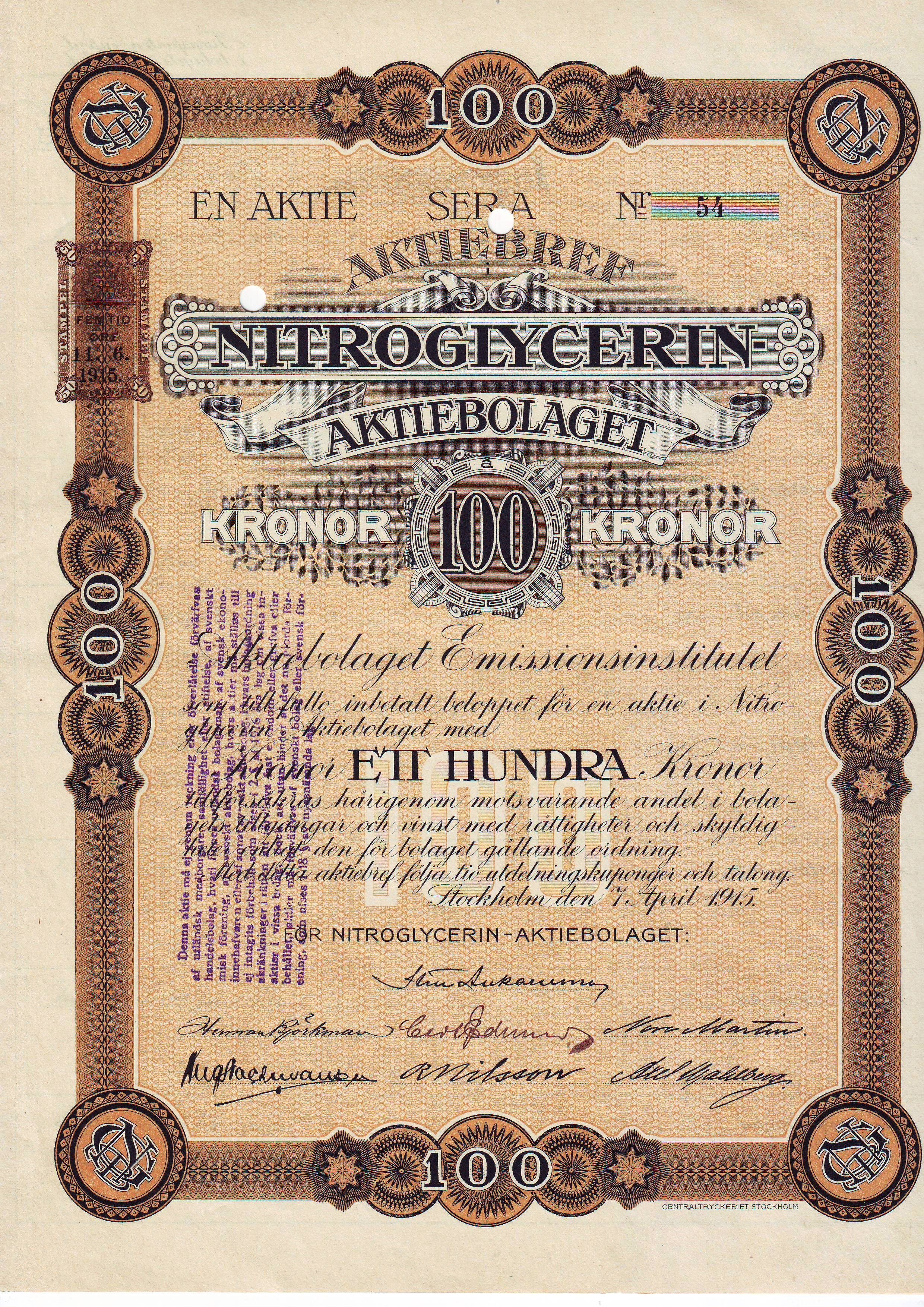 Share of the Nitroglycerin AB, issued 7. April 1915